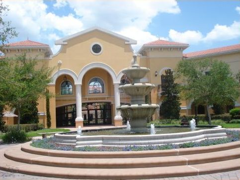 The promenade of the UCF Rosen College of Hospitality Management